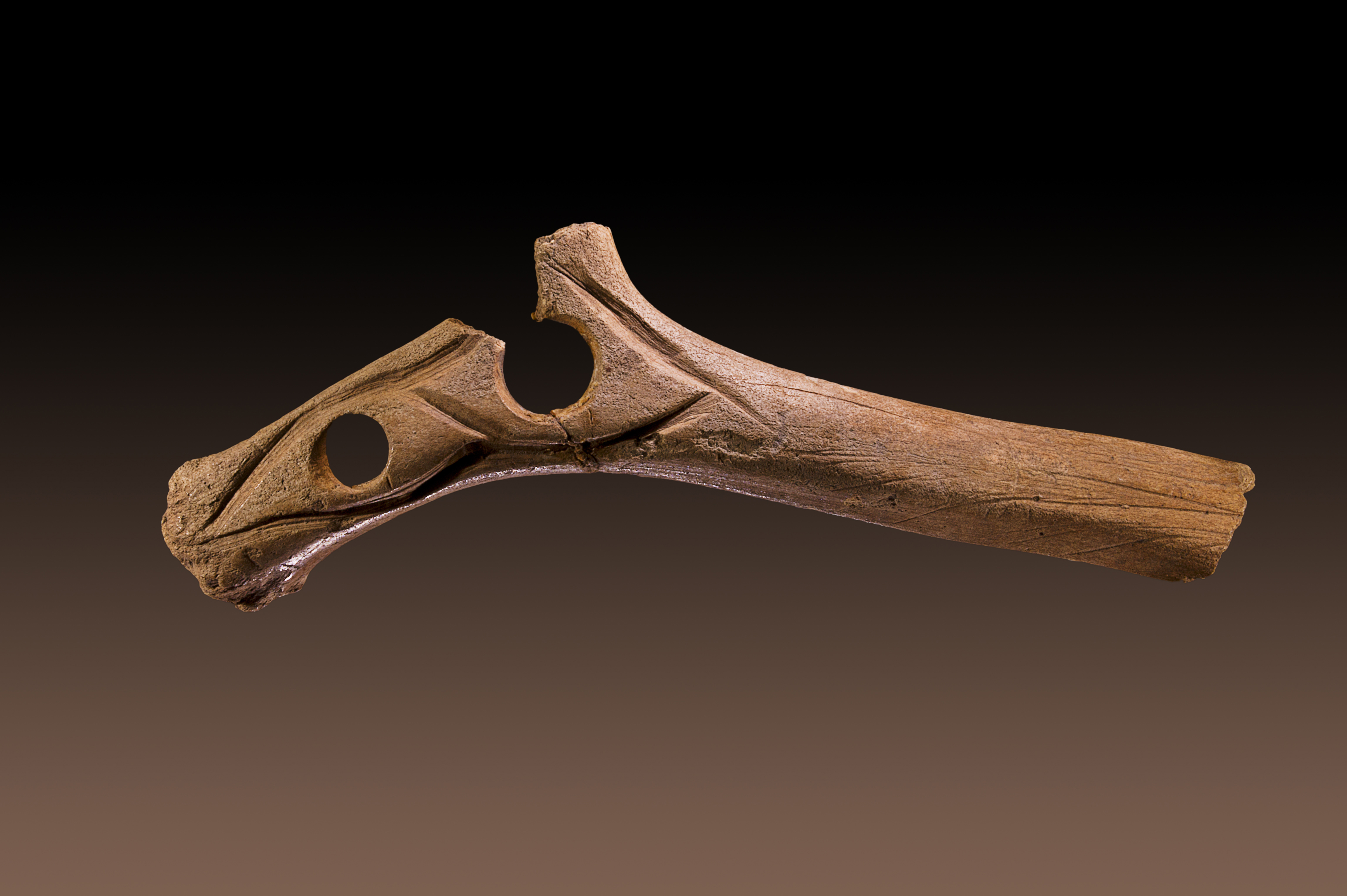 Pierced rod in length of antler Stage : Magdalenian (to 17 000 from 10 000 Before the Current Era) Locality : La Madeleine, Tursac, Dordogne France Former collection of Édouard Lartet (1801 - 1871) Muséum of Toulouse MHNT.PRE.2010.0.1.2 Size : 165x48x21 mm